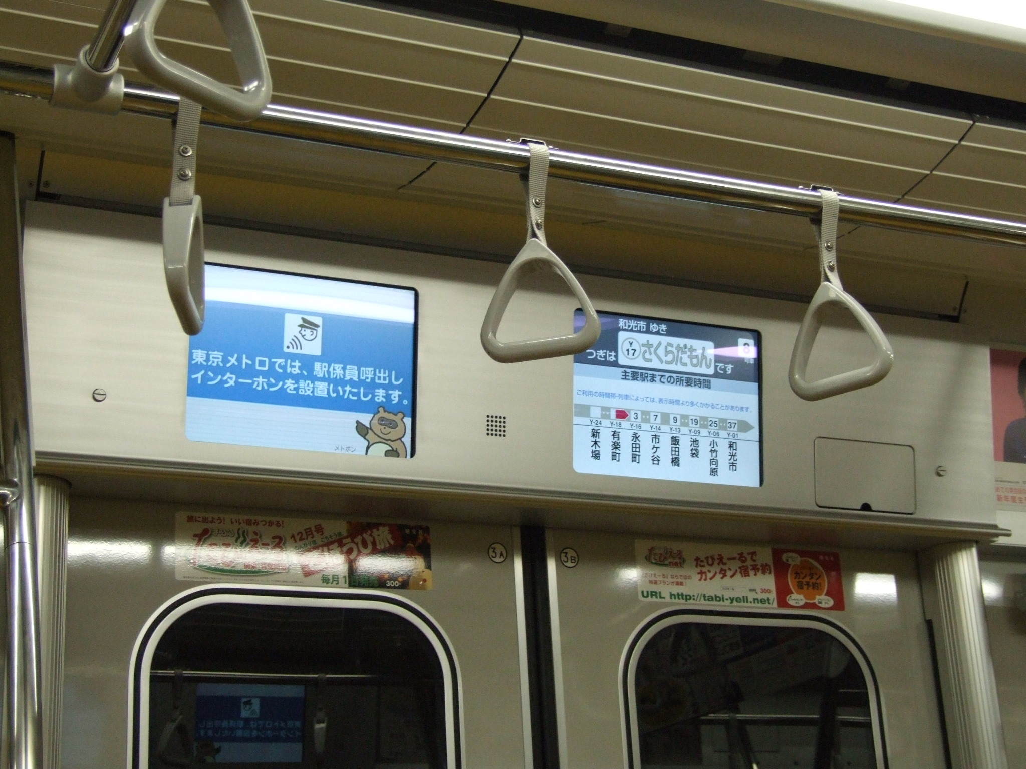 Interior view of Tokyo Metro 10000 series EMU showing LCD passenger information screens